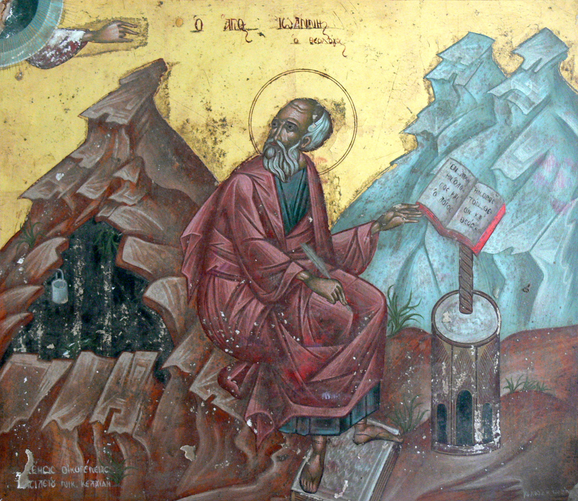 Aptera ( Crete ). Monastery: Icon of Saint John Theologos in the chapel.